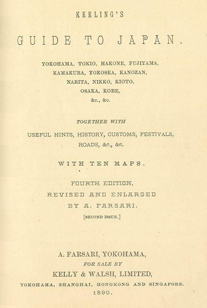 Keeling's Guide to Japan (1890, 4th Edition, 2nd Issue), title page